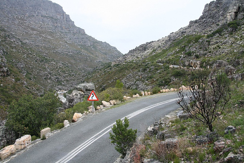 This media shows a South African Protected Site with SAHRA file reference 9/2/106/0007.